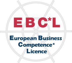 The official logo of European Business Competence*Licence